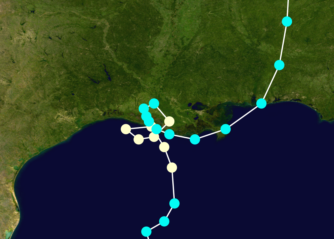 Hurricane Juan (1985) track. Uses the color scheme from the Saffir-Simpson Hurricane Scale.